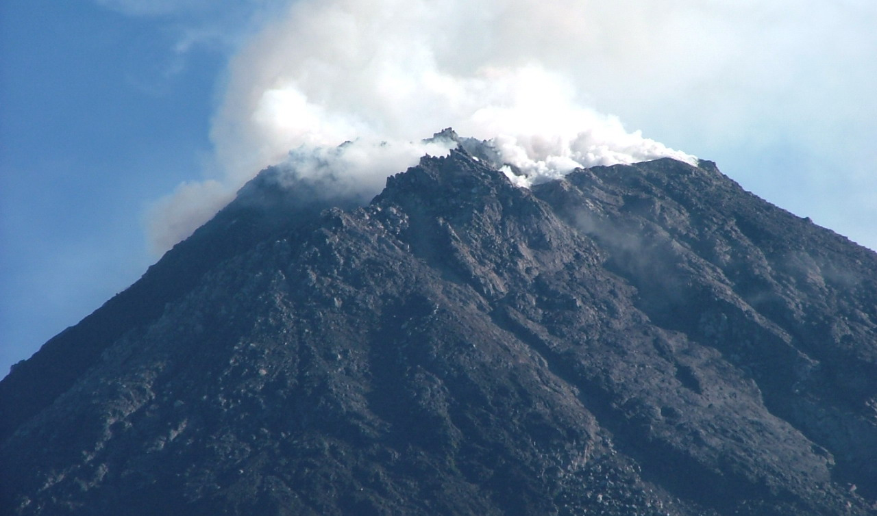 A. lesto P. Kusumo, Source: my documntation, Merapi Volunteer and Consultant for Risk, Hazard and Disaster Management